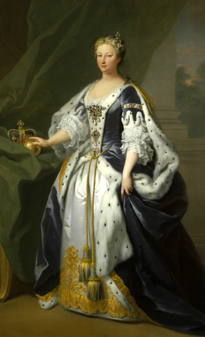 Caroline of Ansbach (1683-1737), Queen of the United Kingdom